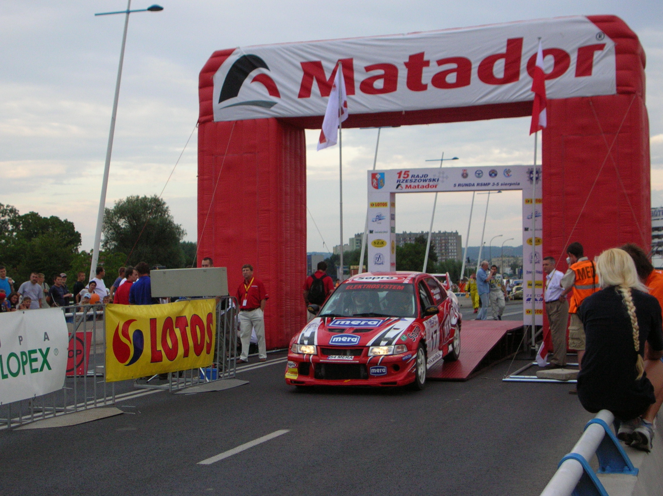 Start of 15 Rallye of Rzeszów